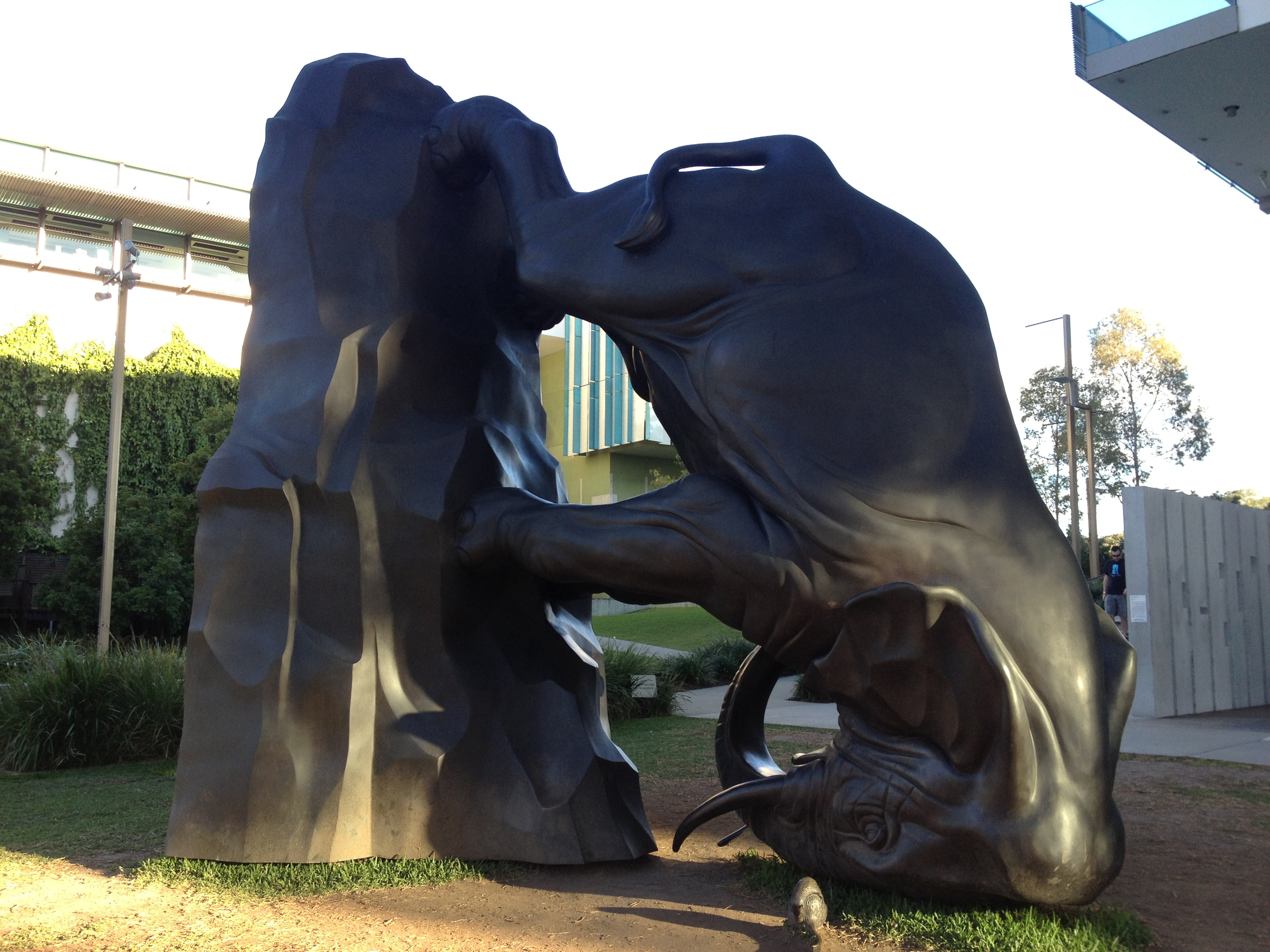 The World Turns (sculpture) by Michael Parekowhai (2012), outside Queensland Gallery of Modern Art, South Bank, Queensland, 07.2013